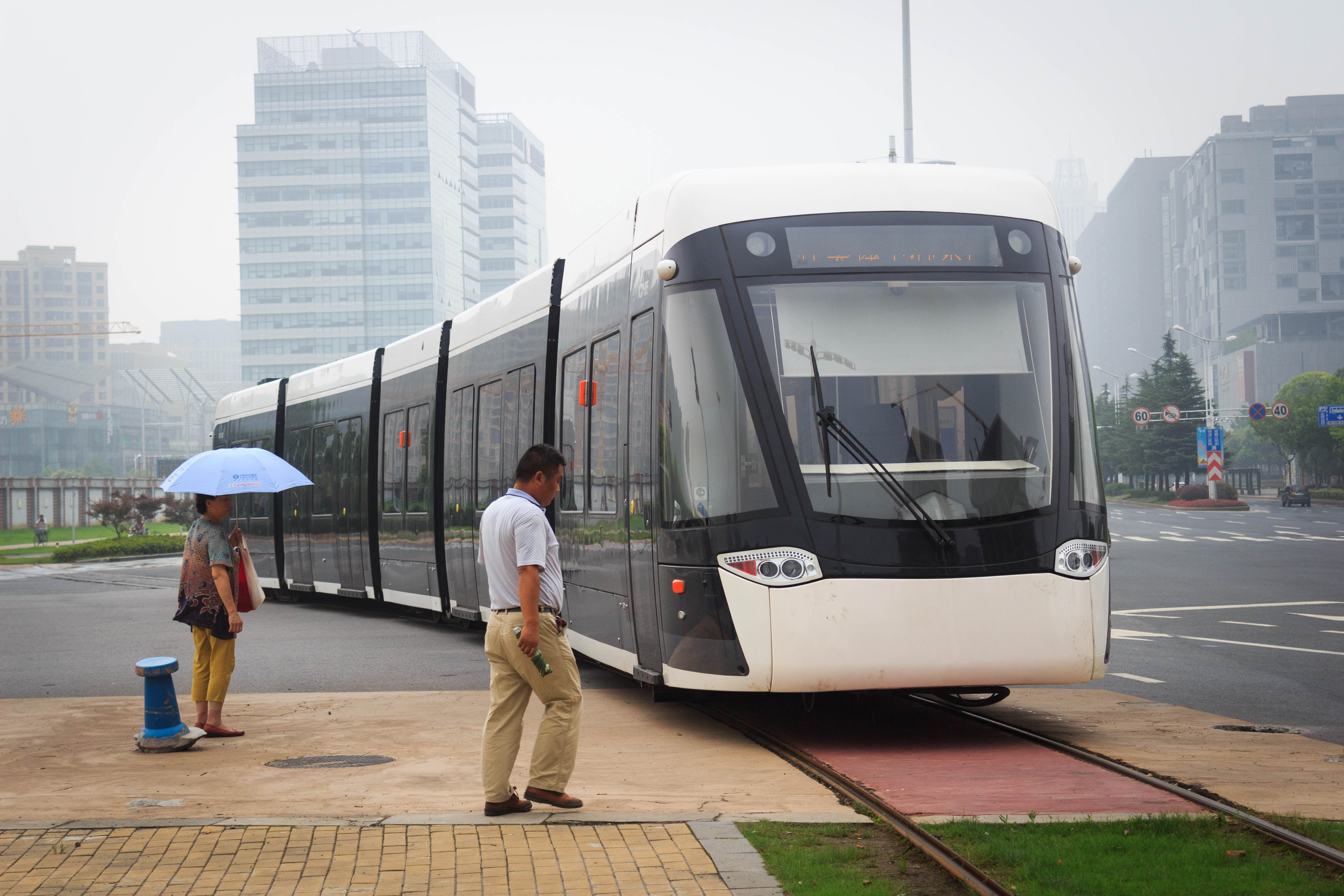 A Nanjing Hexi Trams train is leaving Yuantong Station